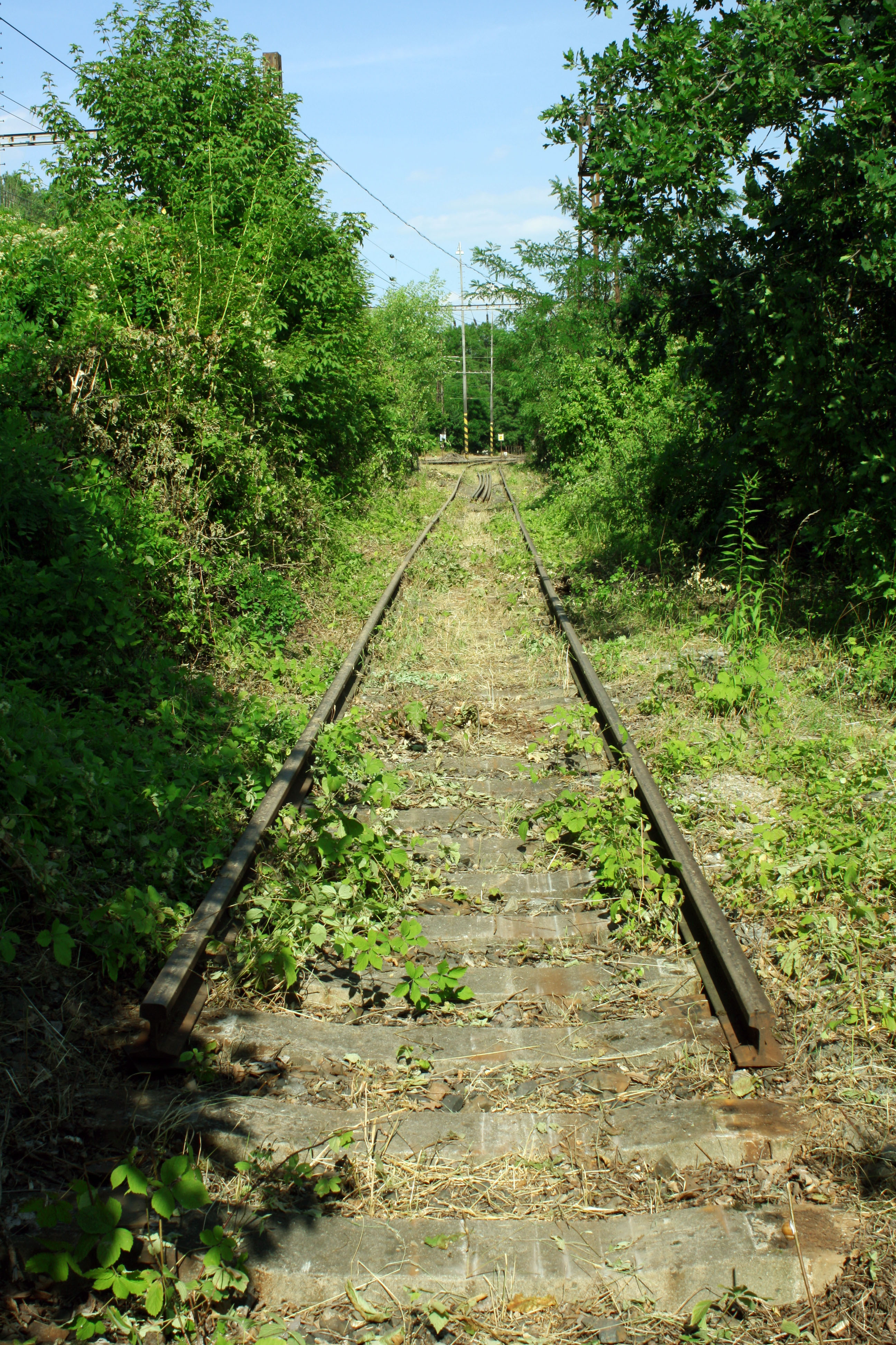 End of rails on former railway line Těšnov – Vysočany (part of line from Lysá nad Labem, todays number 231). Railyard in backgroud is west end (closer to city center) of railway station Praha-Vysočany.